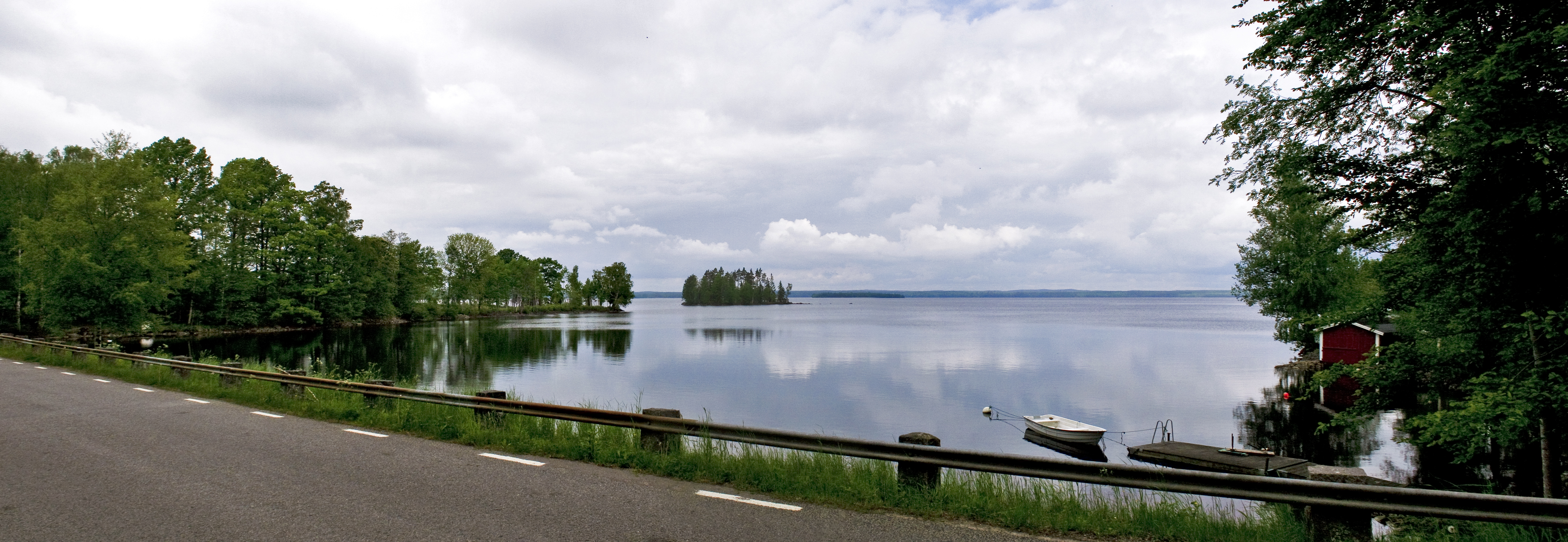 Lake Mien, Sweden. Panorama stitched from 3 photos in PTgui